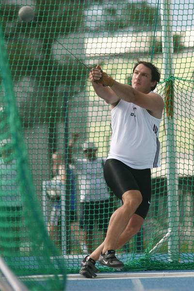 Primož Kozmus throwing